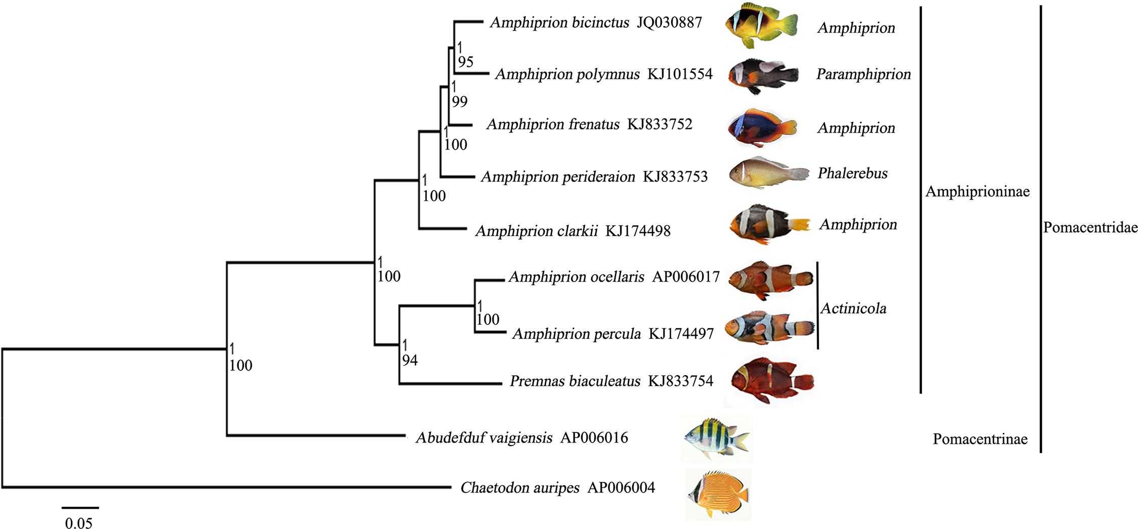 Molecular phylogenetic tree of eight anemonefishes (Amphiprioninae) and Abudefduf vaigiensis (Pomacentrinae) from the same family Pomacentridae in suborder Labrodei. Chaetodon auripes (Percoidei: Chaetodontidae) was selected as an outgroup species. Congruent tree topology was inferred from partitioned Bayesian and Maximum Likelihood analyses using the concatenated nucleotide sequences of 13 protein-coding genes. The Bayesian posterior probability values (top) and boots trap values (bottom) were labeled at branch nodes. Branch length information from the Bayesian tree was shown. GenBank accession number of each species was listed on the right of the species name.